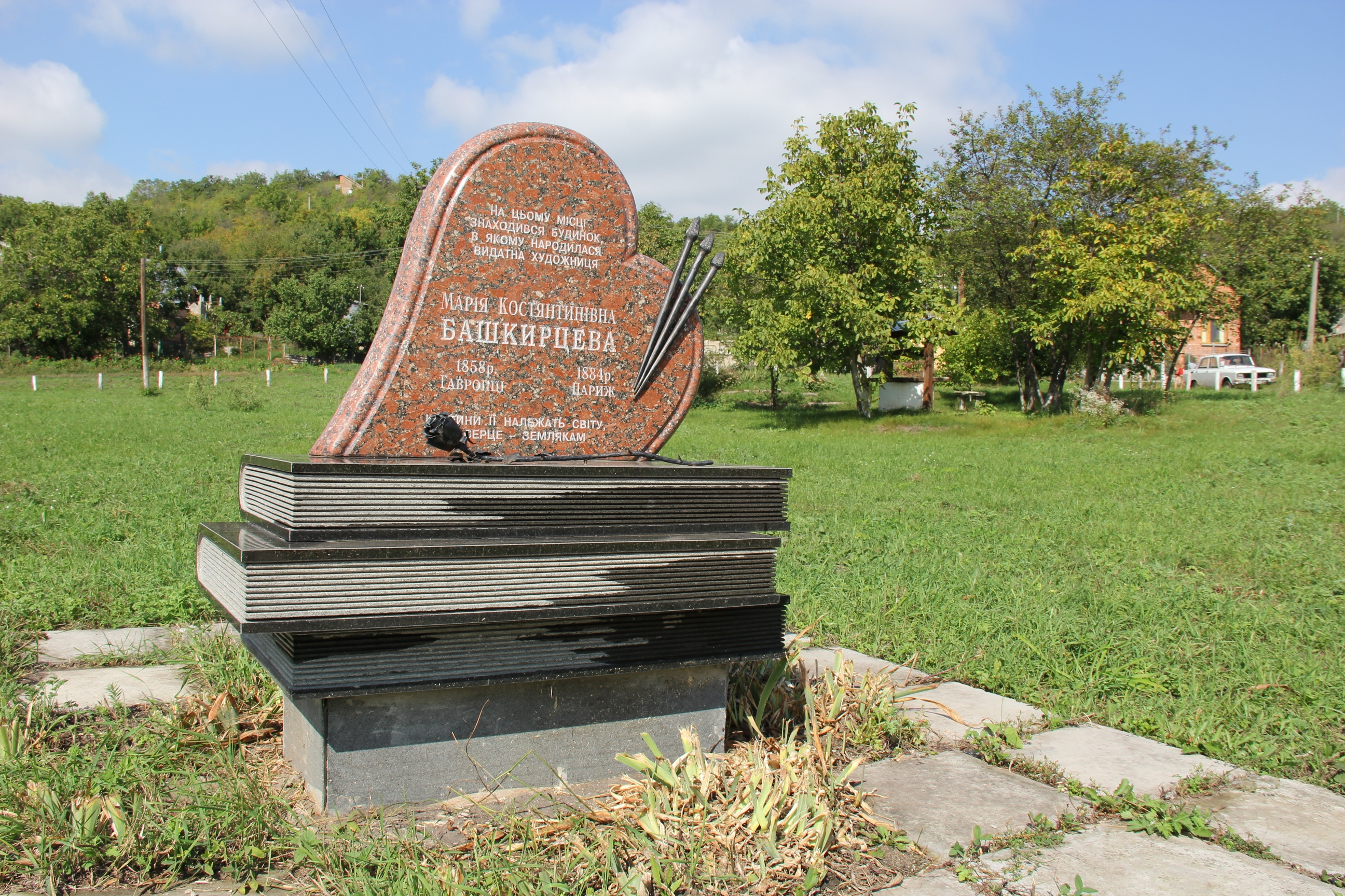 с. Гавронці